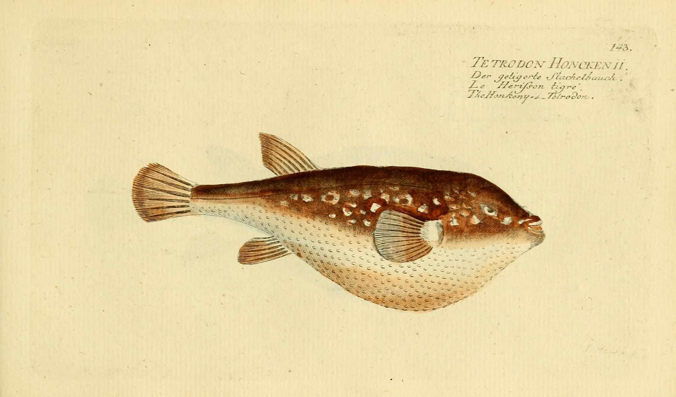 Amblyrhynchotes honckenii (formerly Tetradon honckenii) from Ichthyologie; ou, Histoire naturelle des poissons, Berlin,Chez l'auteur,1796.